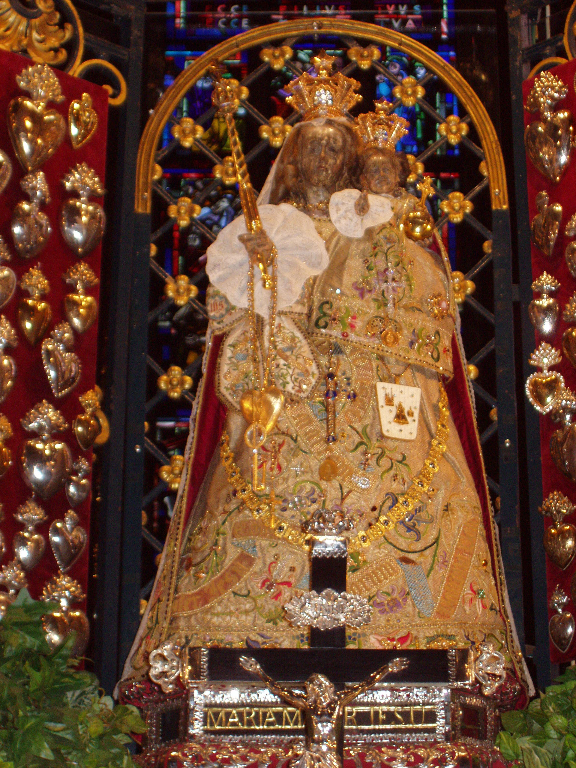 The statue of the consolatrix with clothes in the cathedral of Luxembourg, before the conservation-restoration